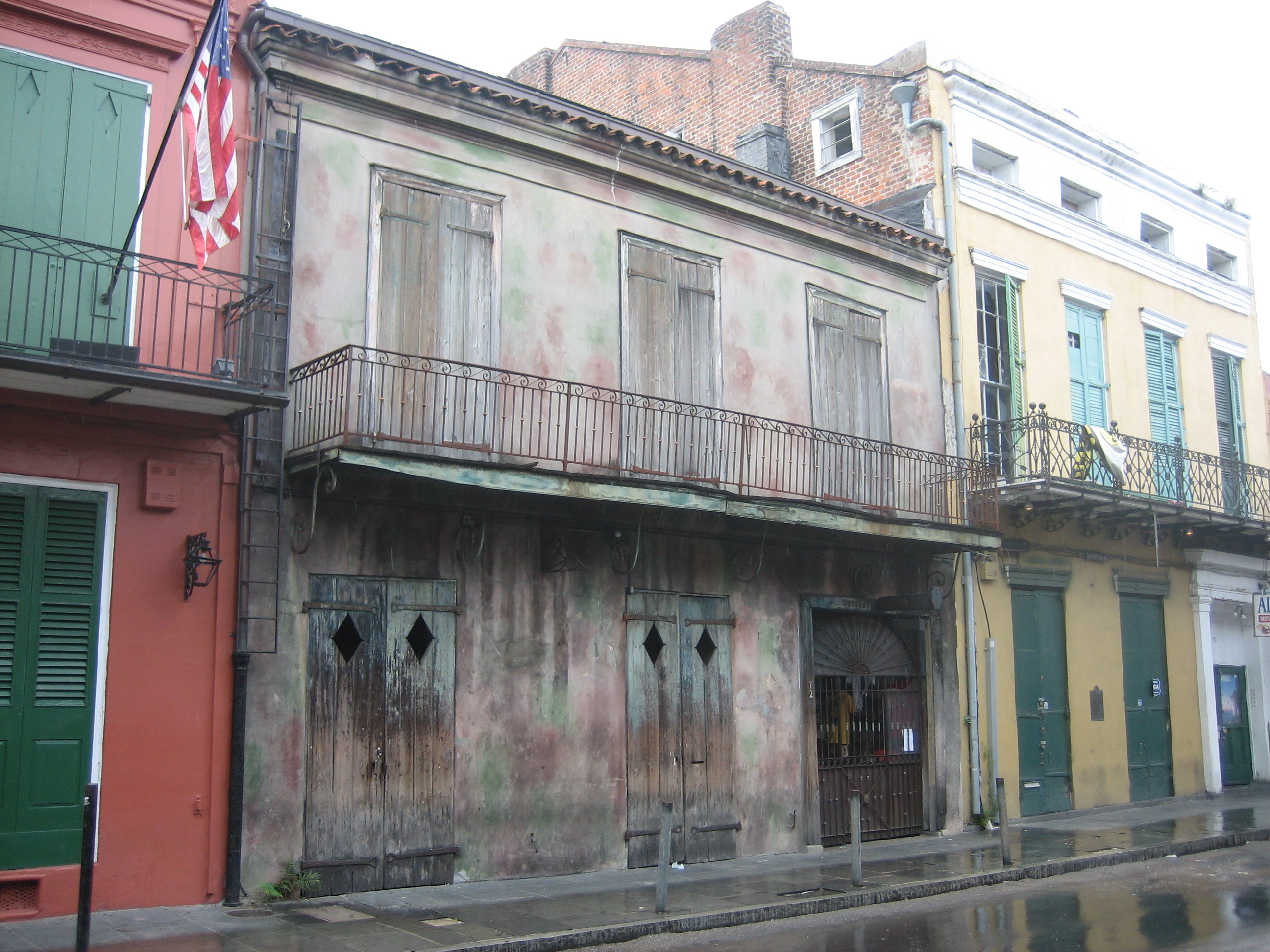 New Orleans French Quarter Preservation Hall, famous live jazz venue. Closed up during day.